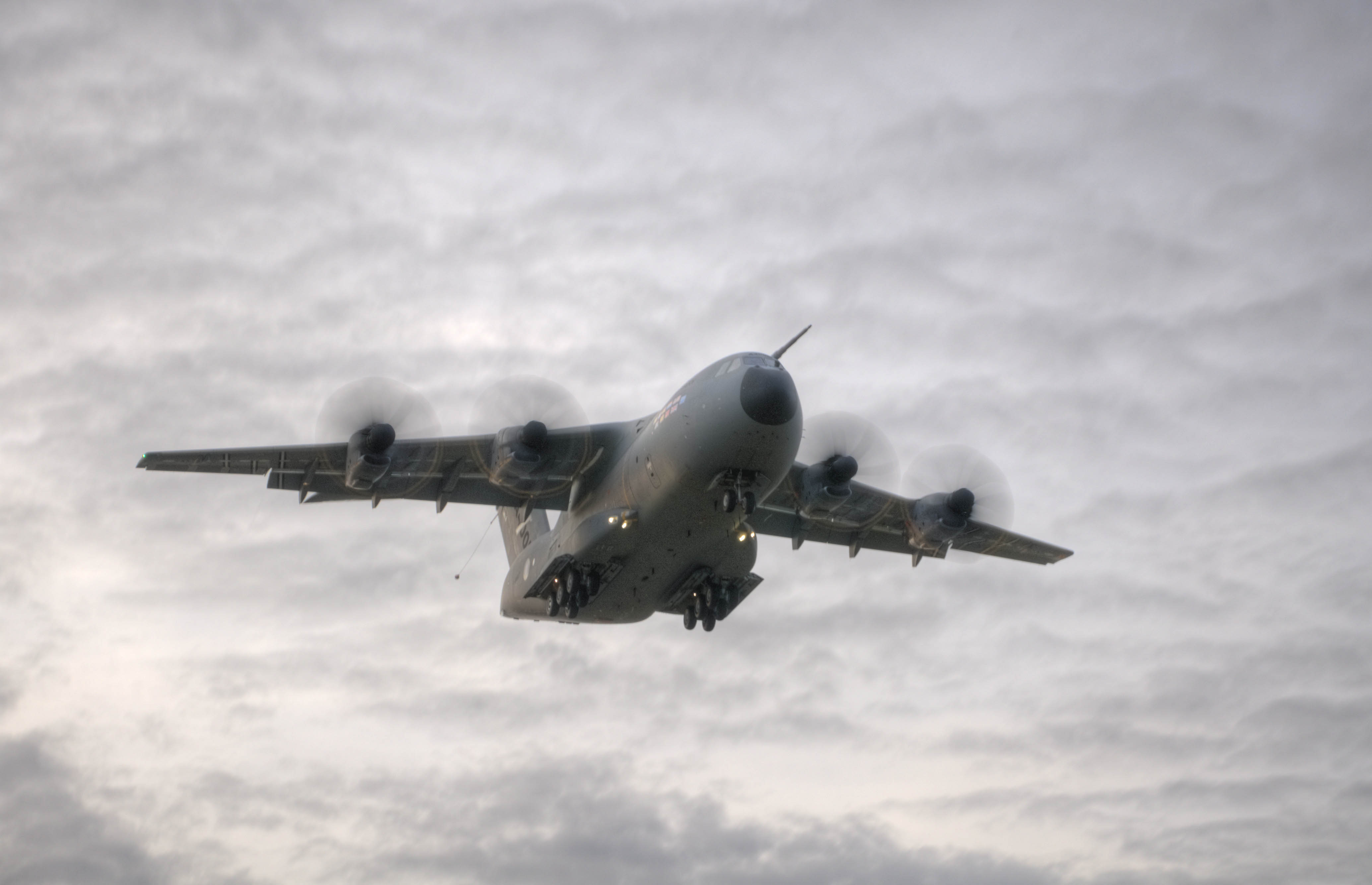 First A400M on final approach on 15/Jan, 4th flight.